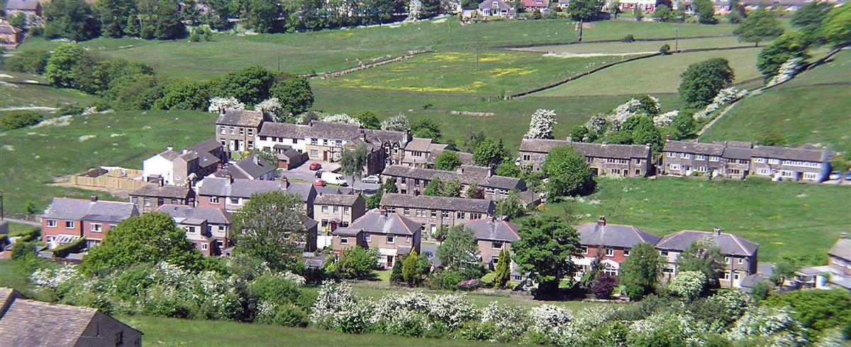 View of Hall Bower, from Castle Hill Huddersfield.